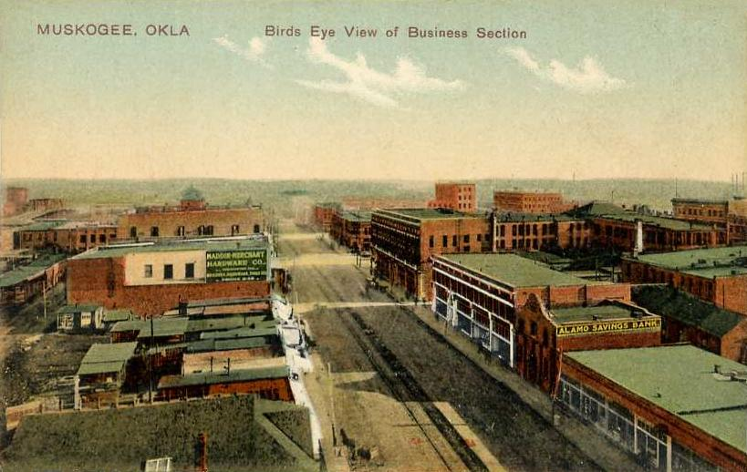 Bird's-eye view of business section, Muskogee, Oklahoma; from a c. 1910 postcard published by the Paul C. Koeber Company, New York.